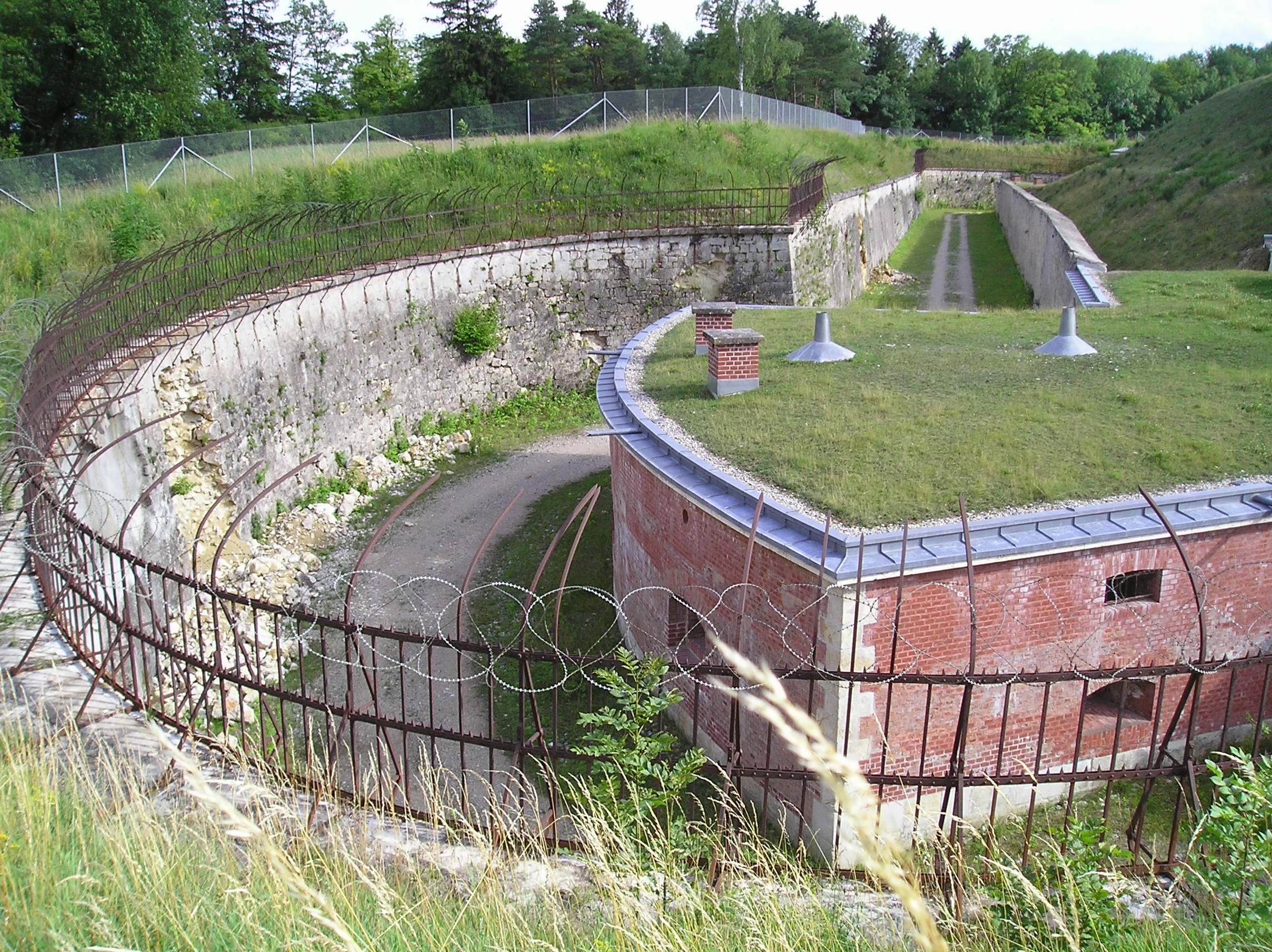 Salient caponier of Fort Prinz Karl near Ingolstadt (Bavaria, Germany)